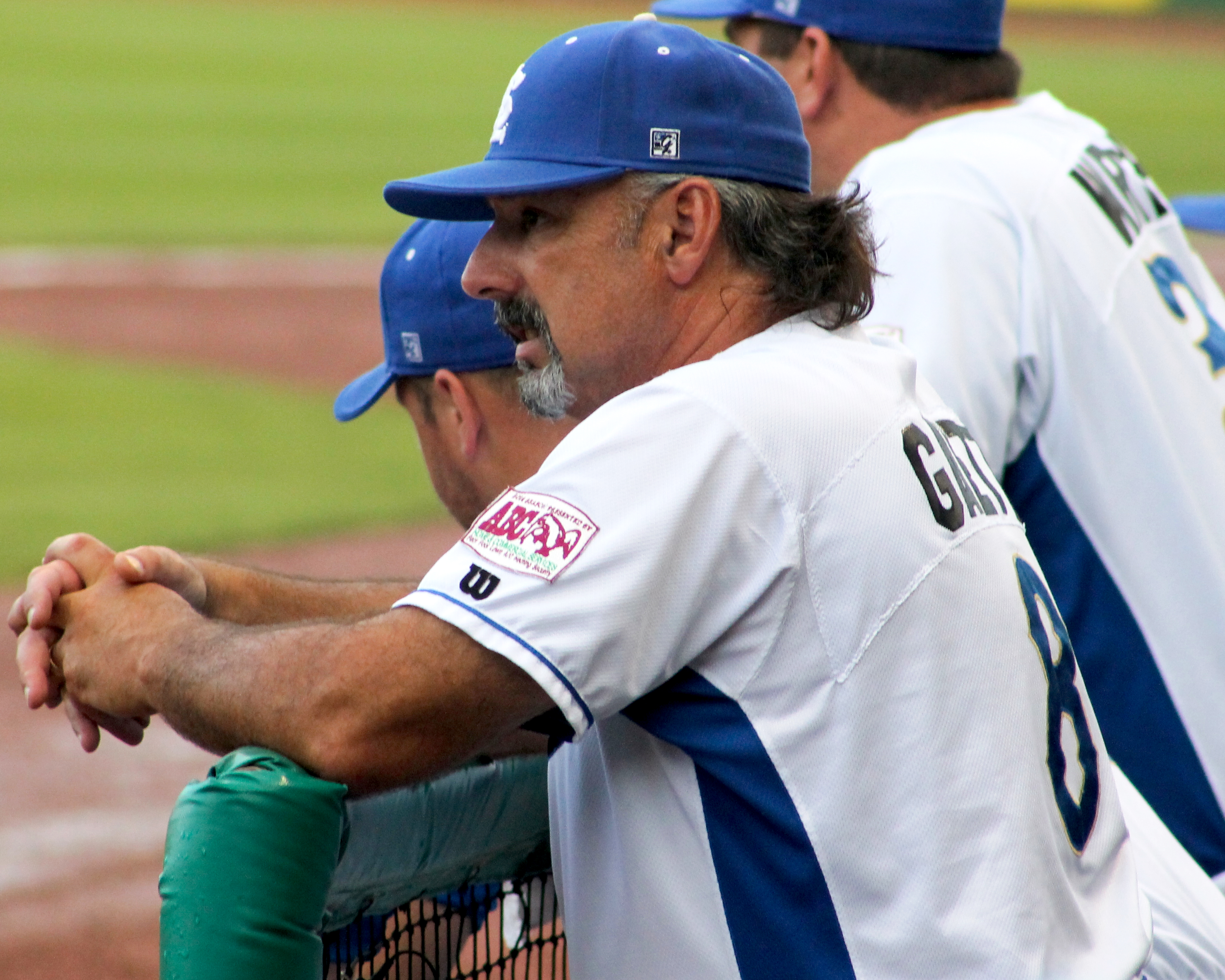 Gary Gaetti, manager of the Sugar Land Skeeters minor league baseball team, in July 2014.